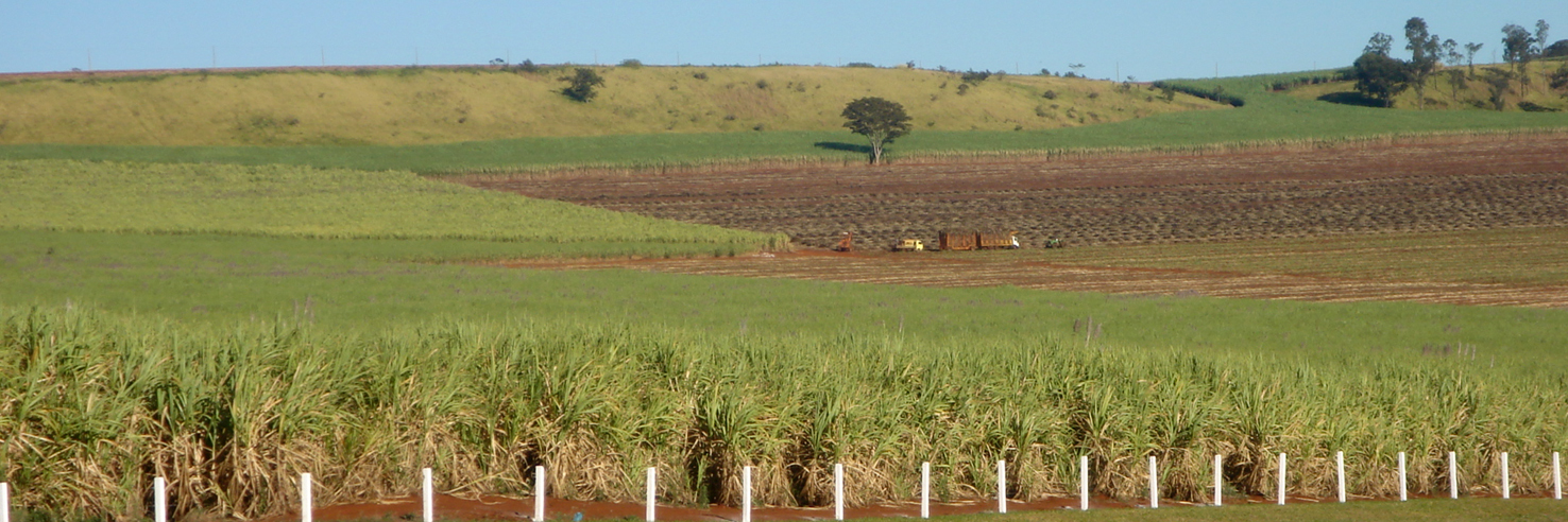 Panoramic view of a sugar cane plantation during the harvest at Sao Paulo state, Brazil. Because this plantation no longer burns the field before harvest, it is possible to have new growth together with cane ready for harvest, and the pick up and transport operation.